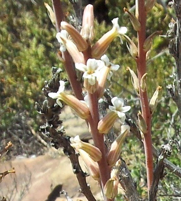 The typically short, robust inflorescence of Astroloba robusta, showing the unusually stocky flowers.